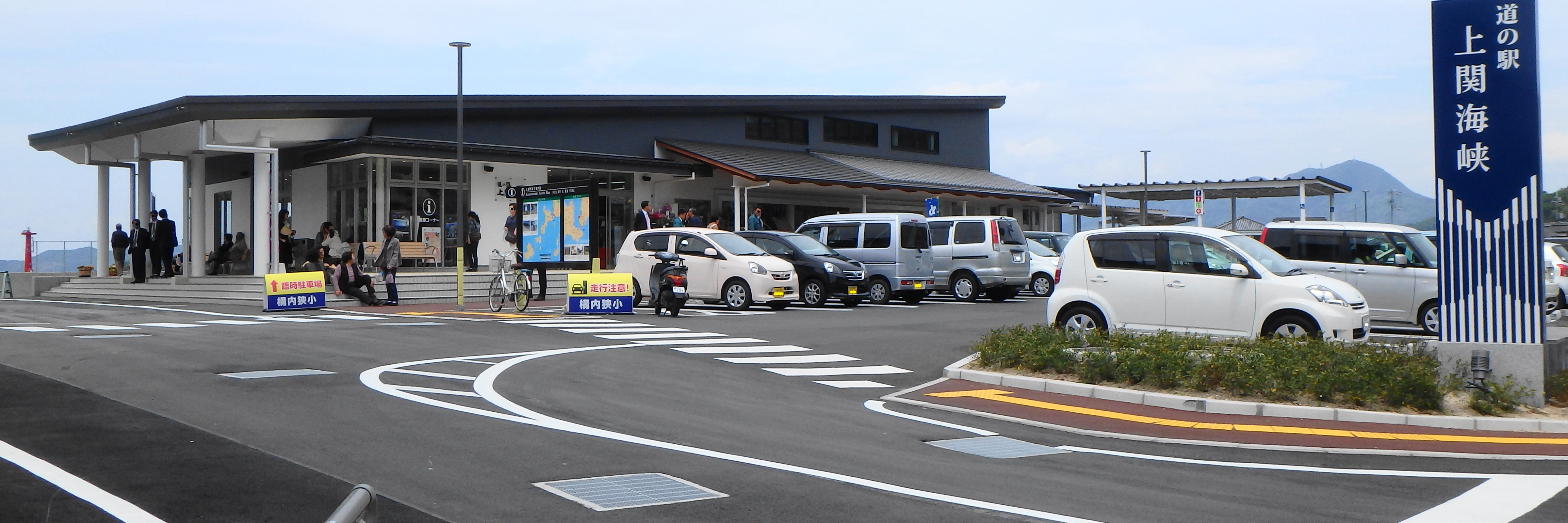 Roadside station Kaminoseki-channel,Yamaguchi prefecture,Japan